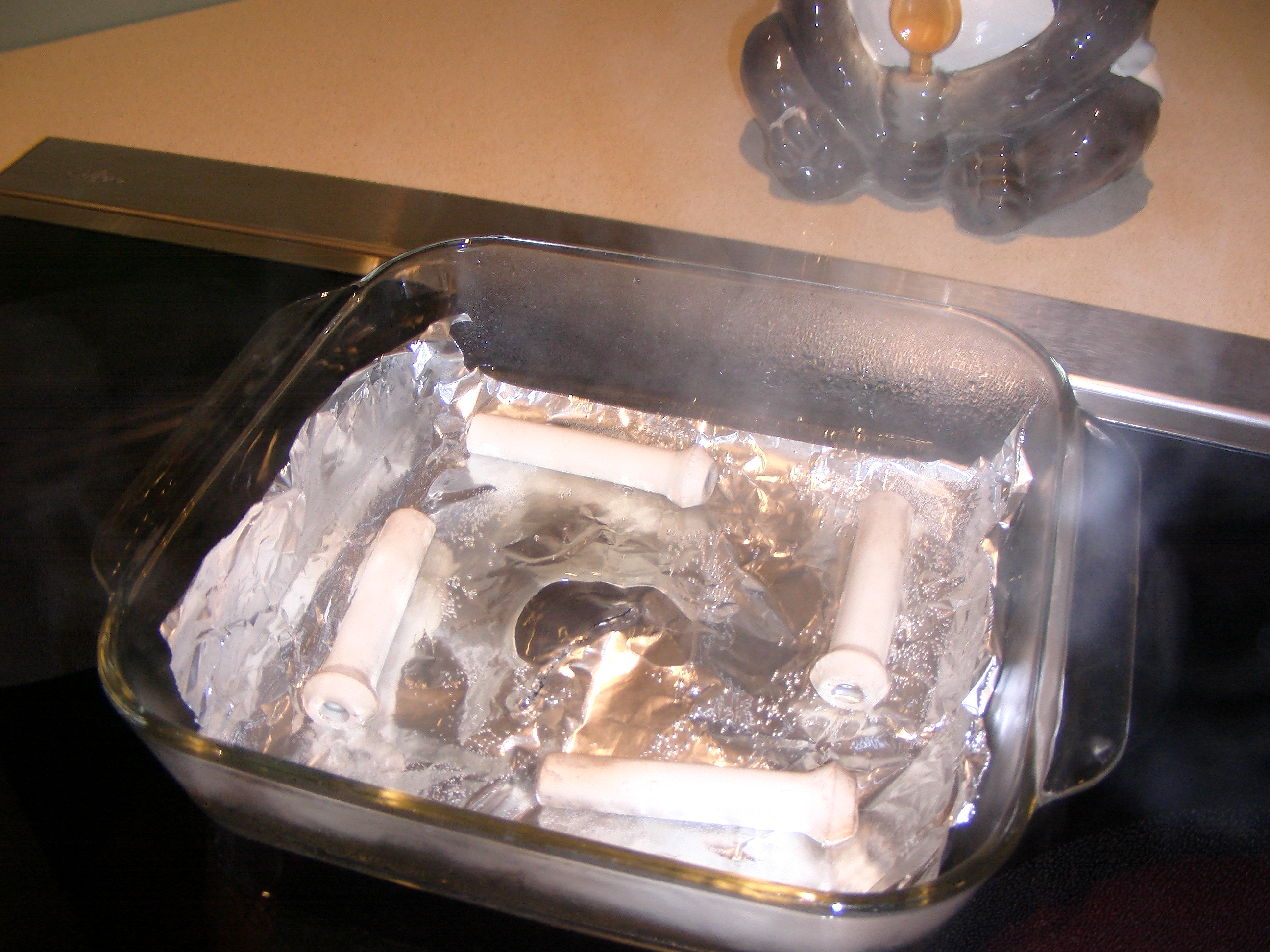 Aluminum foil on an induction cooktop (hob). Household aluminum foil is much thinner than the skin depth in aluminum at 24 kHz, typical of the frequencies used by induction cooktops. It will heat up on a cooktop. This foil had a steam bubble form below water, and when the foil was exposed to air, it melted through. Since aluminum is not ferromagnetic, hysteresis does not contribute to the heating effect. Manufactures of cooktops recommend not using aluminum on induction cooktops.